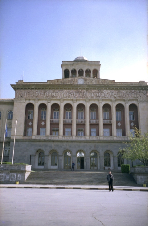 we were hoping to take a look on the premises of RSW, but 2 weeks earlier the factory was bought. on all sides the Works were guarded as if it were in business again